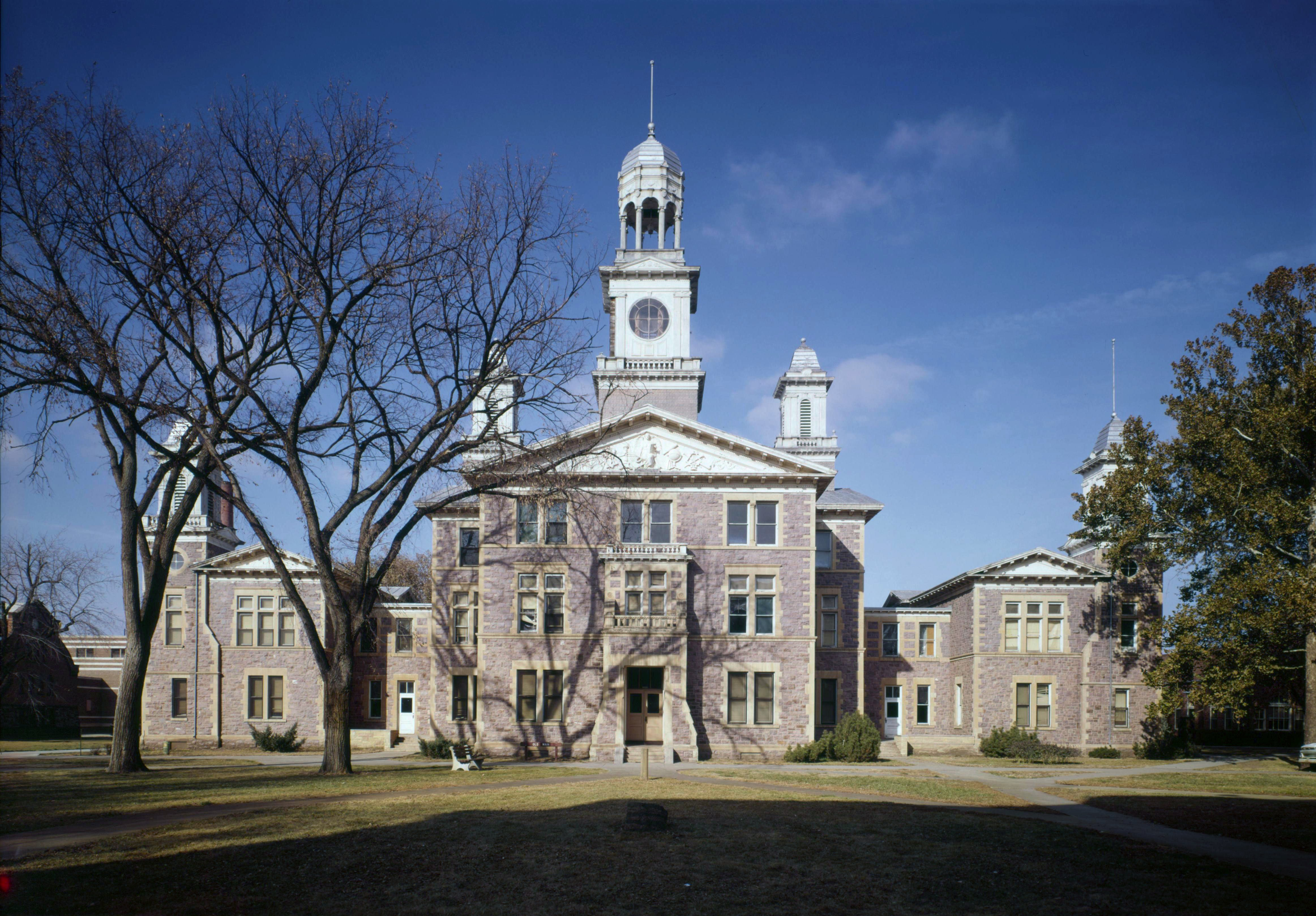 Front of Old Main (University Hall) — on the campus of the University of South Dakota in Vermillion, South Dakota, United States. Built in 1883, it is listed on the National Register of Historic Places. 1976 image: HABS−Historic American Buildings Survey of South Dakota.